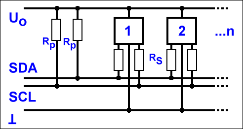 Diagram of I²C-bus and its three electric lines.